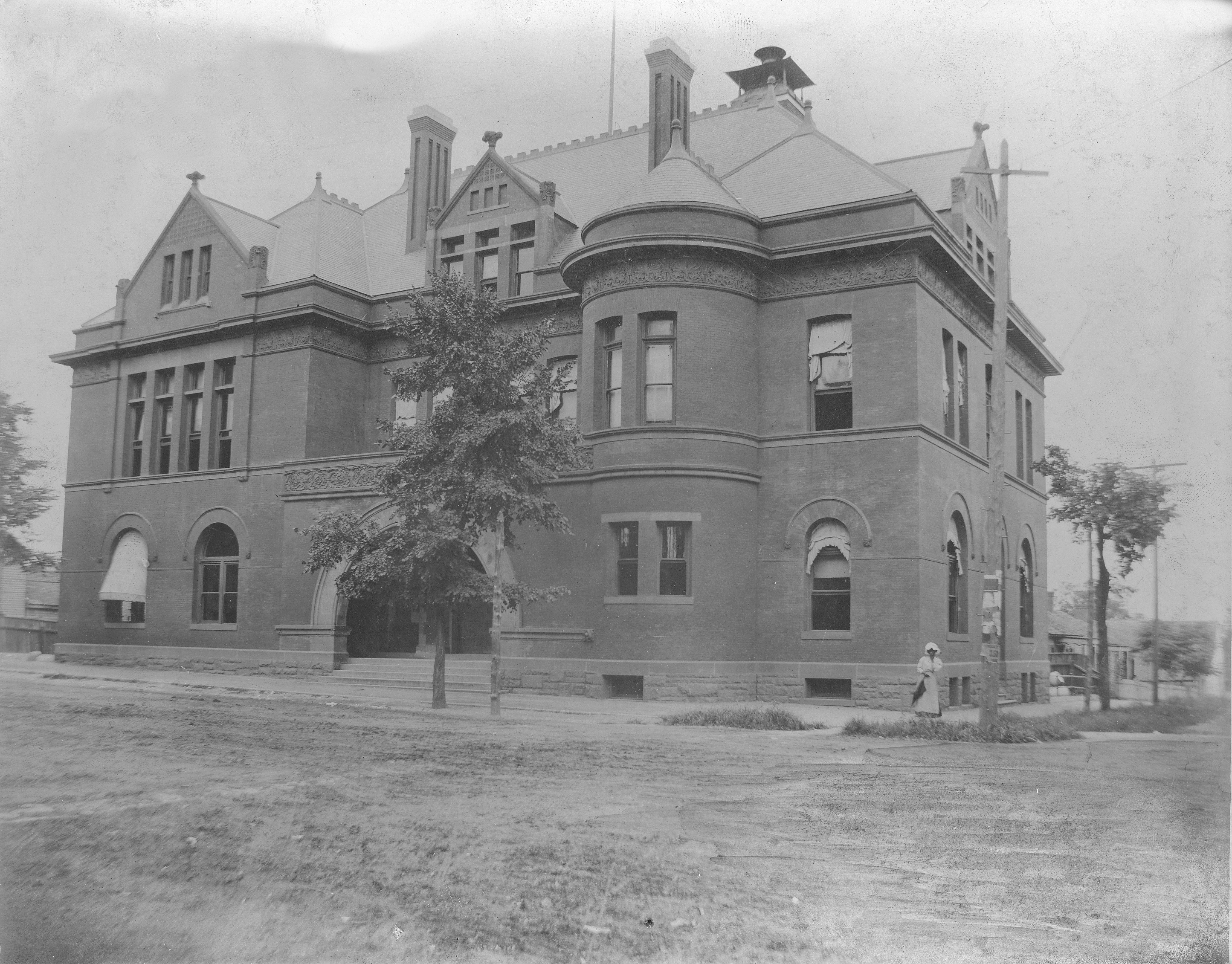 ca. 1900 photograph of the 1891 U.S. Court House and Post Office located in Statesville, North Carolina, now serving as Statesville's City Hall.